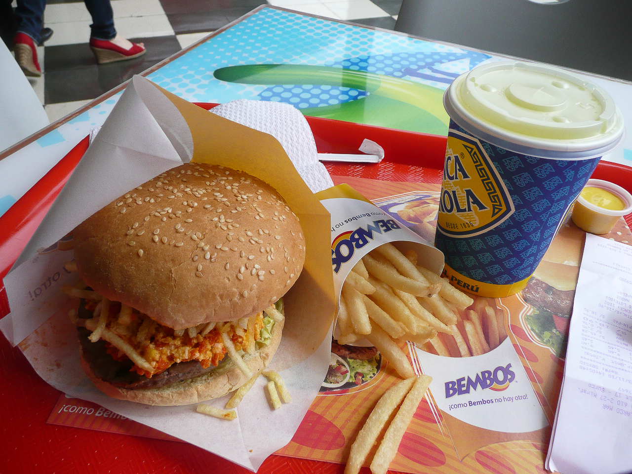 Fast food from Bembos, fries on the burger with inka cola.